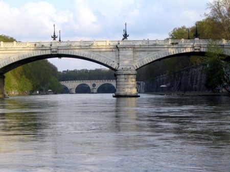 Tiber river. Picture taken by User:Leland on April 13, 2004.